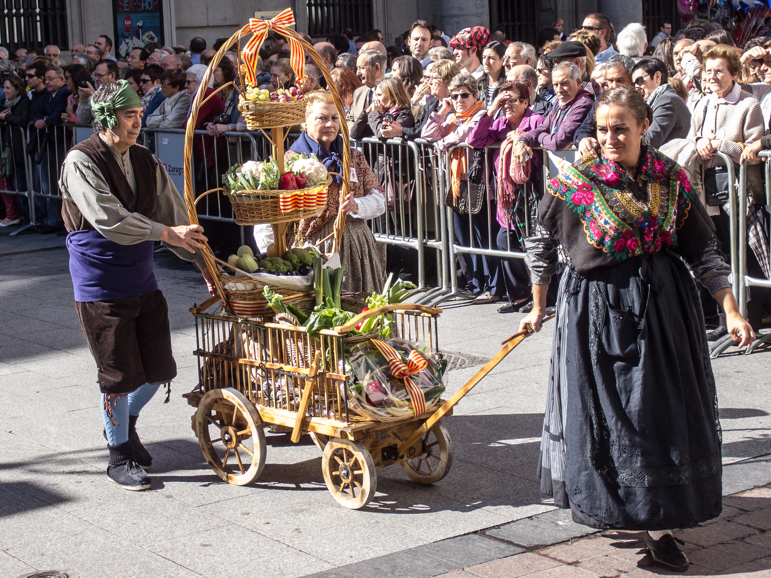 OLYMPUS DIGITAL CAMERA This is a photography of a Folklore festival in Spain (Wikidata id Q3092925).